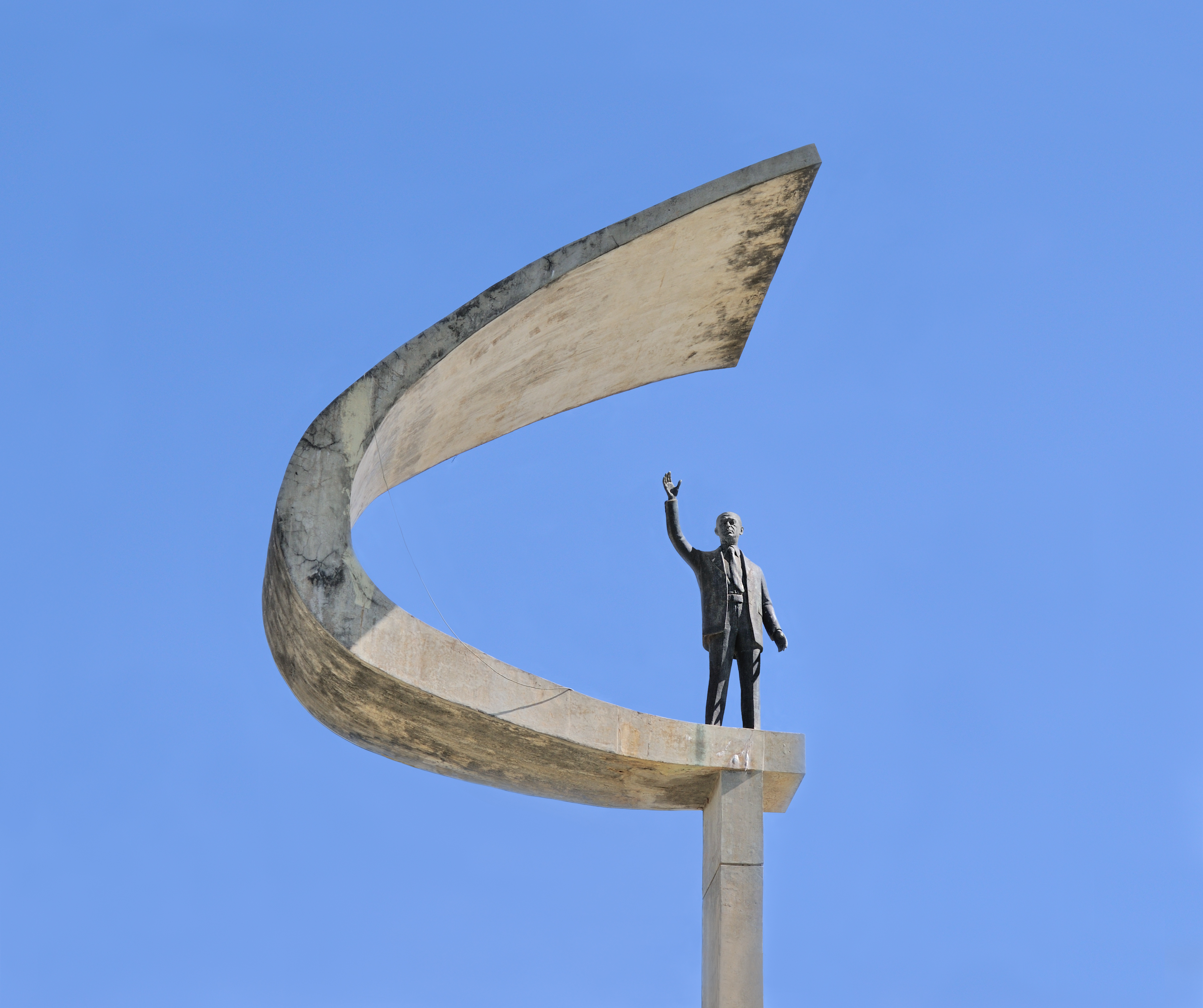 Statue of Juscelino Kubitschek in front of the JK Memorial in Brasília, Brazil. The statue, which is by Honório Peçanha, is 4.5 m high and weighs 1500 kg.